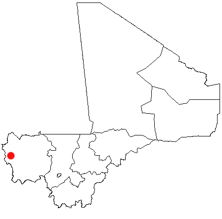 Sadiola, Mali Location Map; created with the GIMP. Made by User:Acntx.